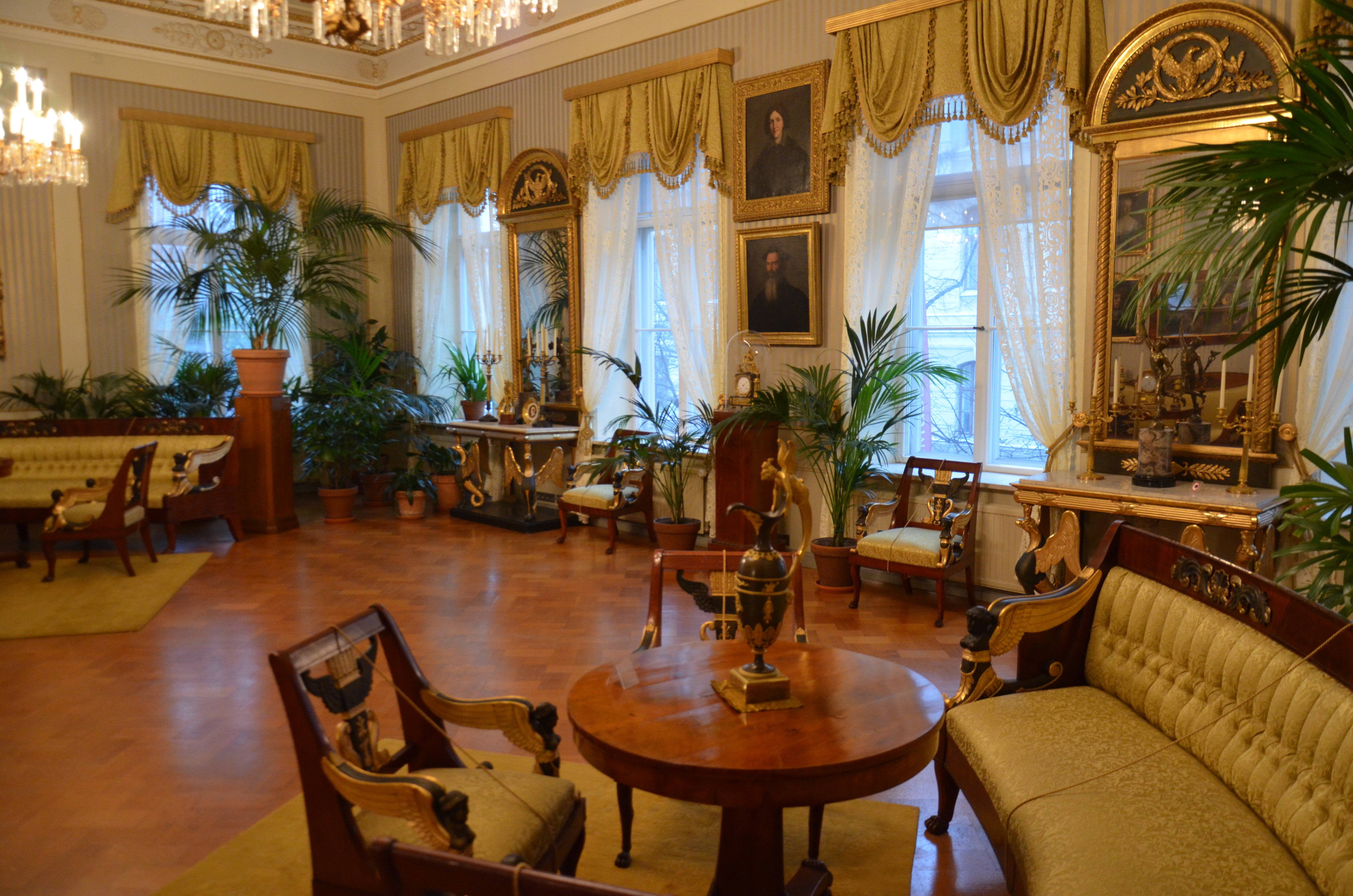 Hörnsalongen, Sinebrychoff konstmuseum